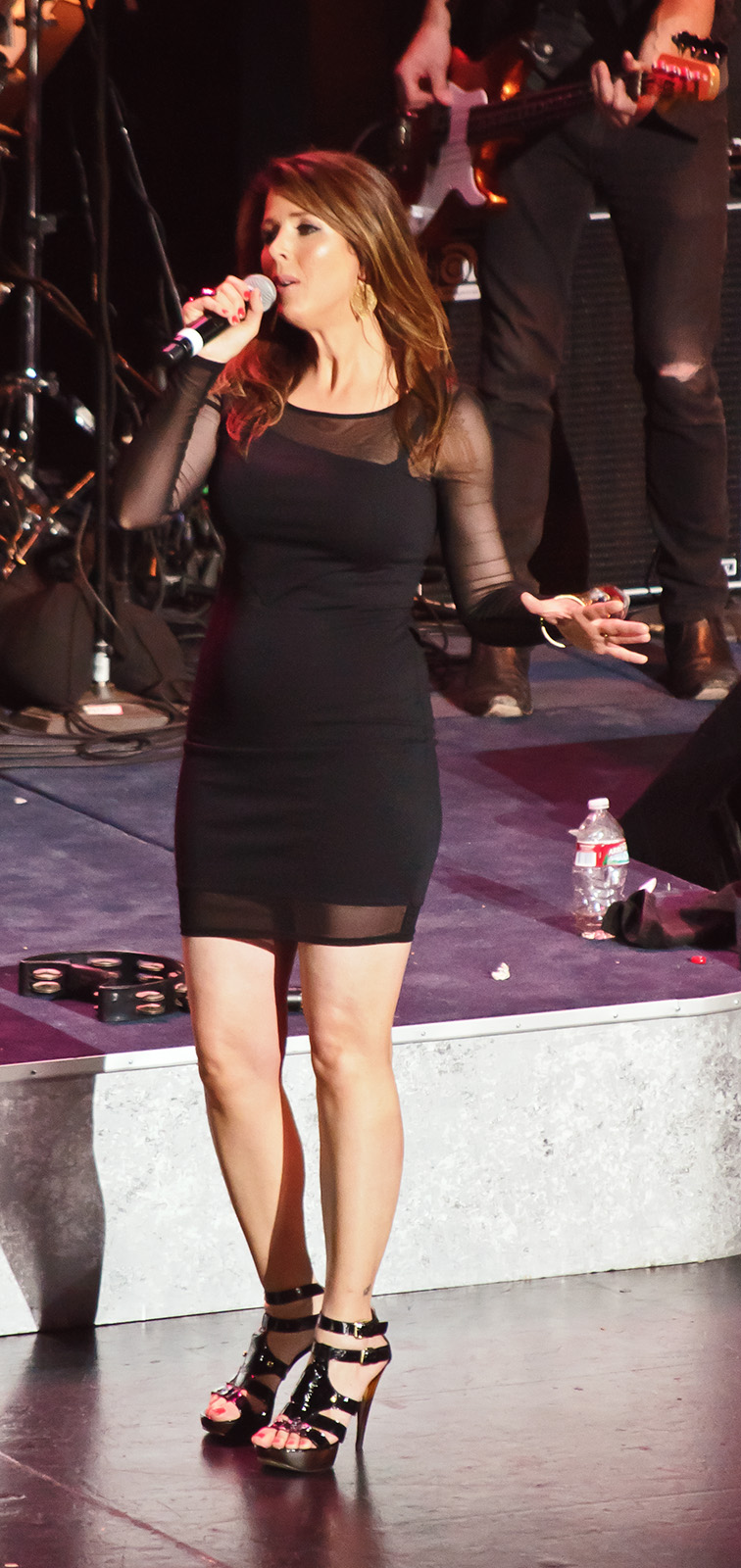 Wendy Wilson performs "Impulsive," during a Wilson Phillips concert 4 May 2013 at Saban Theatre in Beverly Hills, California, USA.